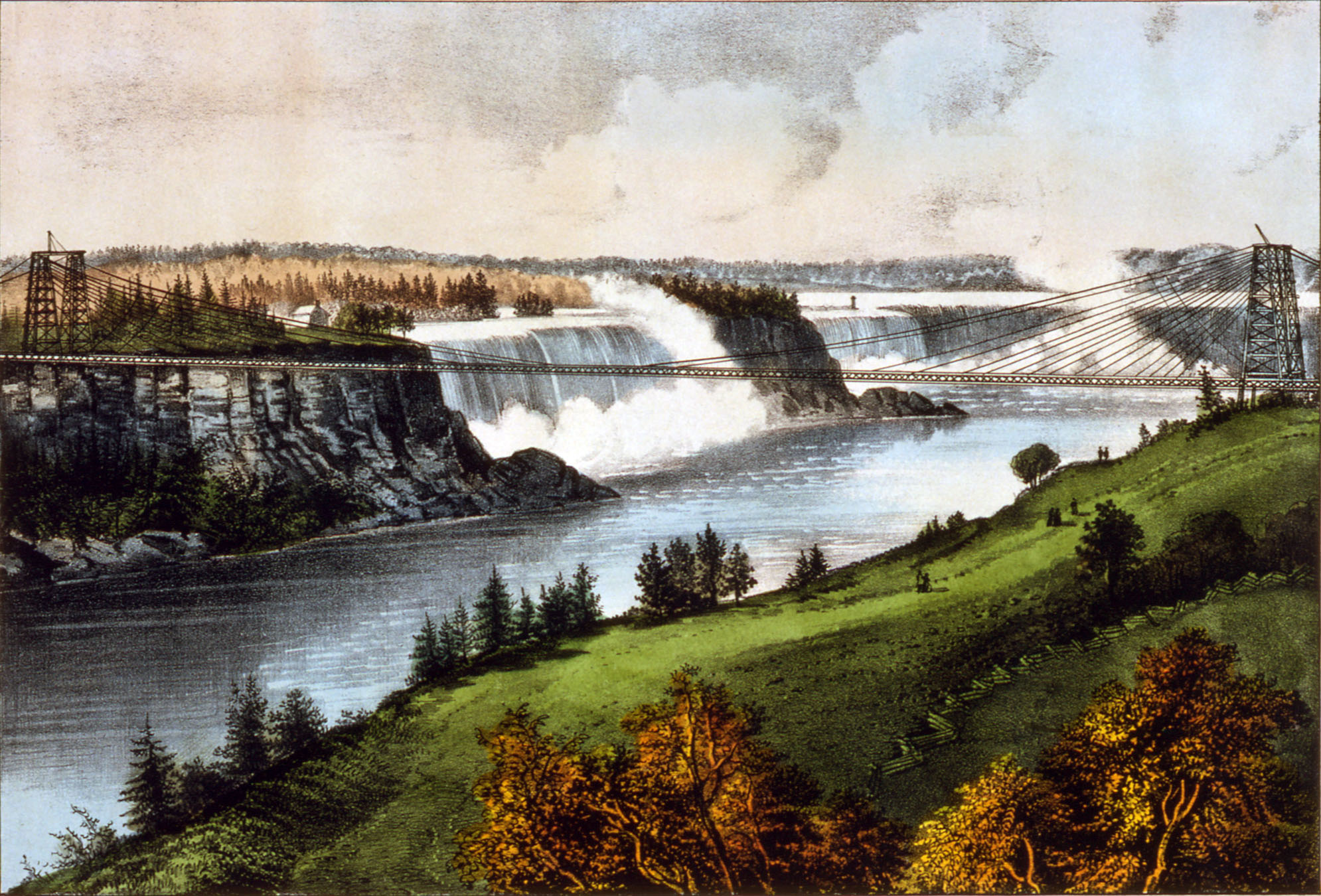 Artwork of the Falls View Suspension Bridge as seen from the Canadian side